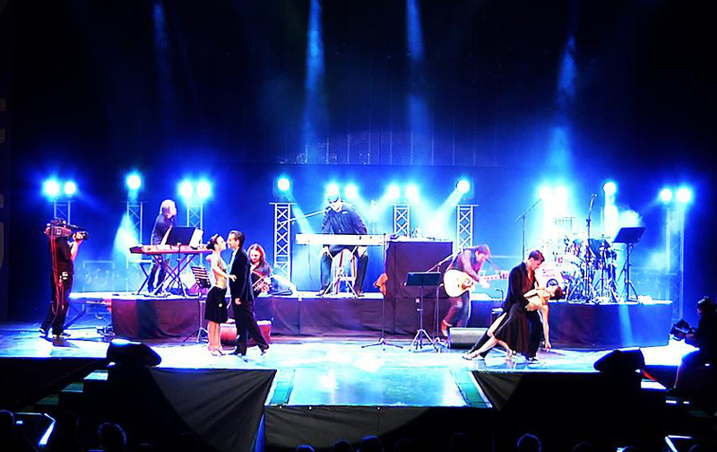 Tanghetto performing at the Mediolanum Forum, Milan, Italy (Latinoamericando Expo 2013)